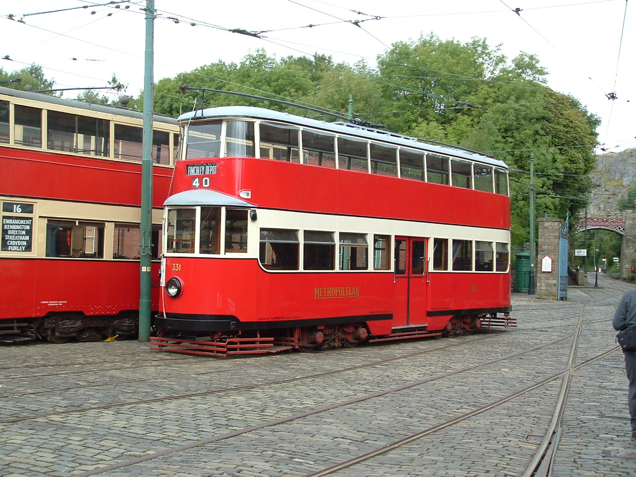 London Metropolitan Tramways "Feltham" Tram No.331. Unlike other Felthams, this vehicle has centre entrances as opposed to the more traditional arrangement of doors at each end. It entered service in December 1930. After completing it's career in London, it was sold on to Sunderland Corporation in 1937, who renumbered it to 100. It is the only operational Feltham tram in the world, and only 2 others are preserved. The tram behind No.331 is London County Council Tramways No.1.